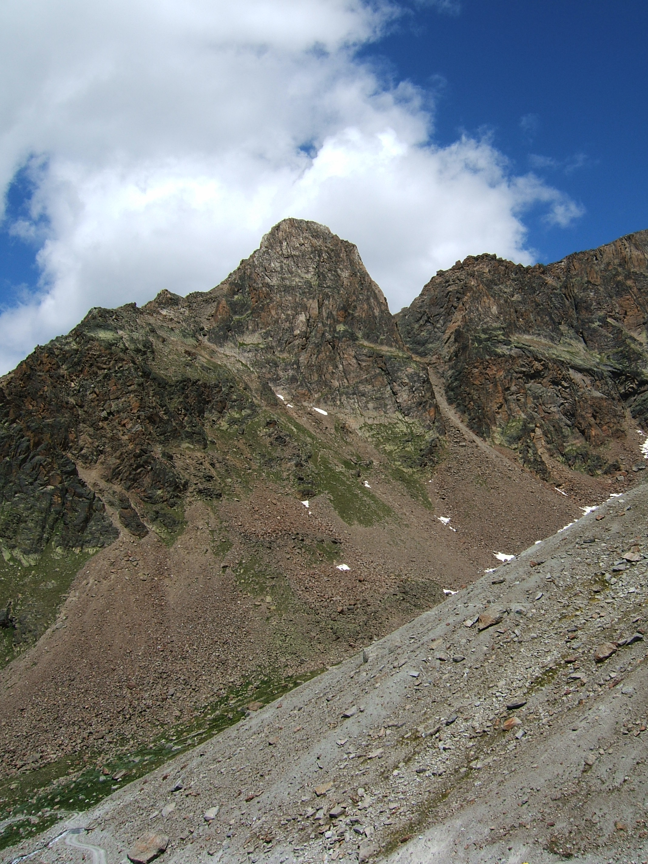 Jegihorn from Southeast, from Weissmieshütte